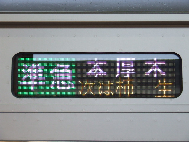 Information Board on the Hull of Model 4000, Odakyu Electric Railway